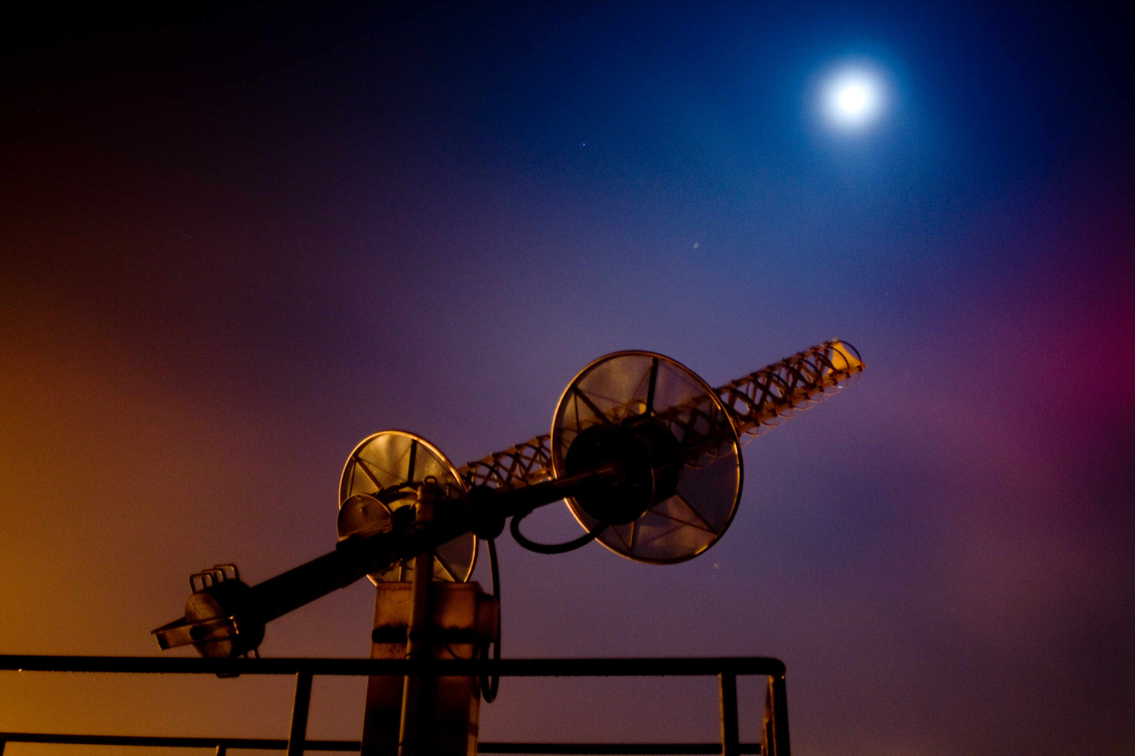 An EHF antenna. One with particularly nice lighting all around it. Street lamp to the left and an aircraft warning light to the right.